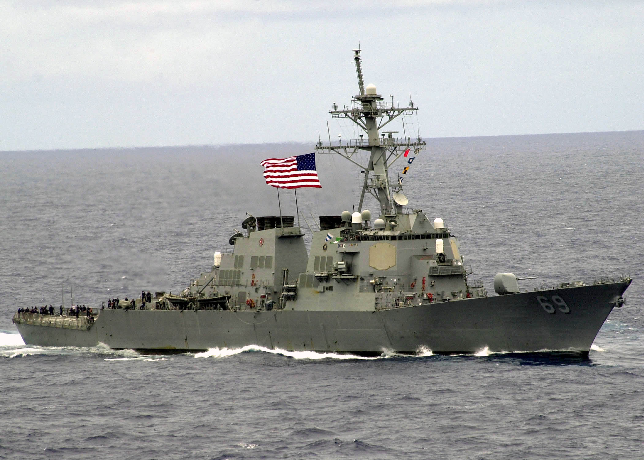 At sea with USS Milius (DDG 69) May 20, 2003 -- The guided missile destroyer USS Milius (DDG 69) proudly displays her large American flag during a practice sea power demonstration for USS Constellation's upcoming “Tiger Cruise.” USS Constellation (CV 64) Carrier Strike Group is returning home from deployment in which it supported Operations Southern Watch, Enduring Freedom and Iraqi Freedom. U.S. Navy photo by Photographer's Mate 2nd Class Daniel J. McLain. (RELEASED)